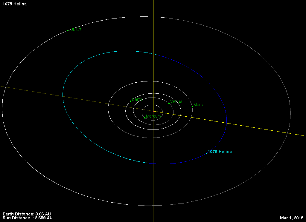 1075 Helina orbit and his position on 01 Mar 2015 (NASA Orbit Viewer applet)